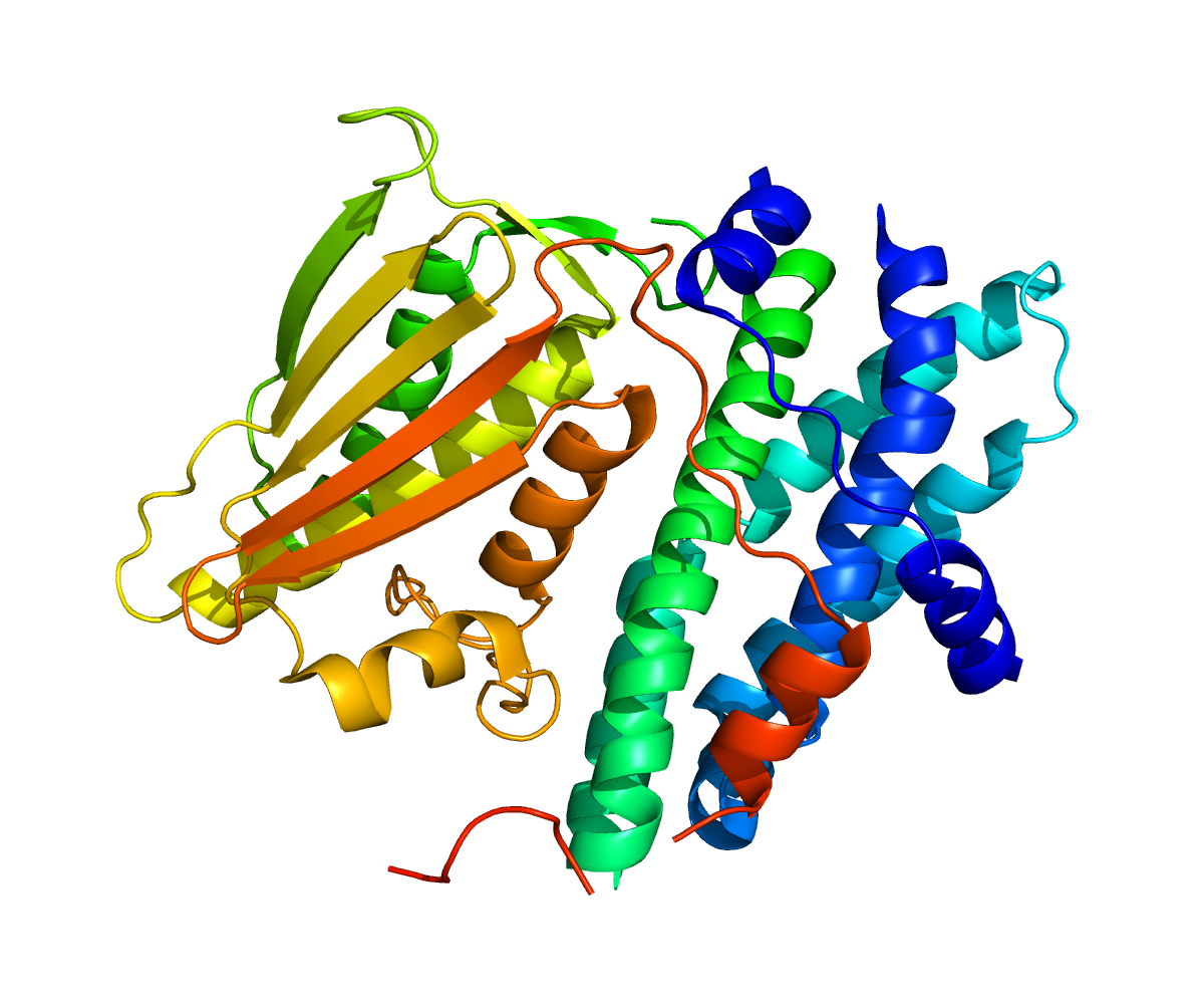 Structure of protein PDK1.Based on PyMOL rendering of PDB 2Q8F.